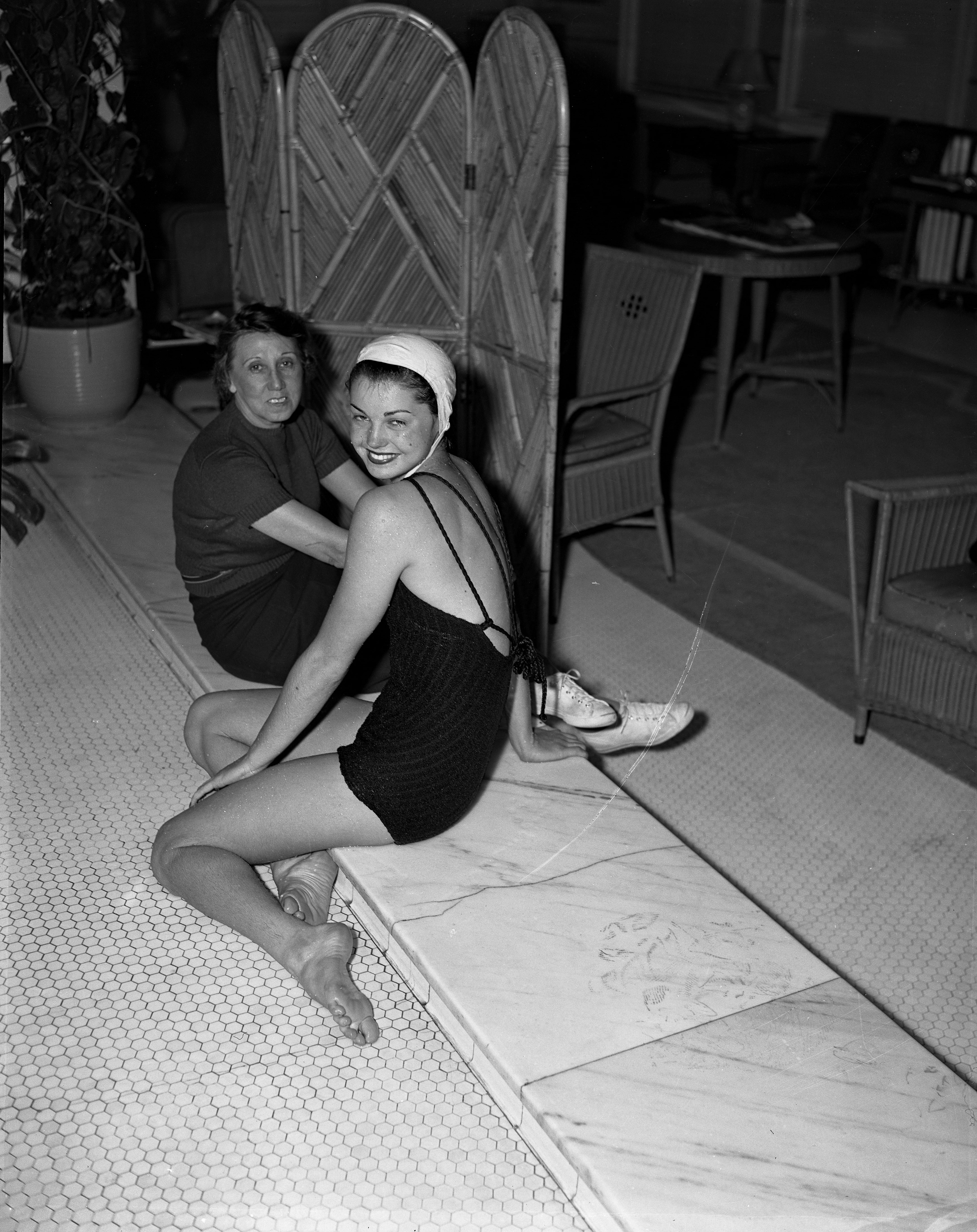 Esther Williams, 17, posing in a swim suit during training in Los Angeles, California in 1939.